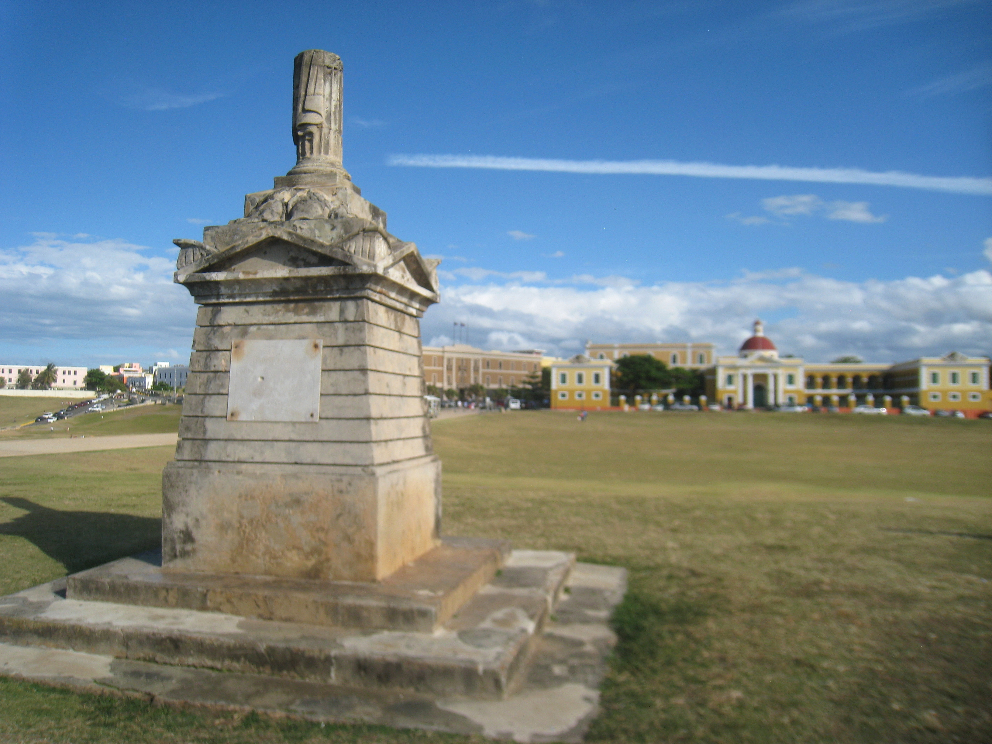 Amezqueta Monument at Fort San Felipe del Morro, San Juan, Puerto Rico. At El Morro entrance honouring Capt. Juan de Amezqueta's defense of San Juan in 1625.